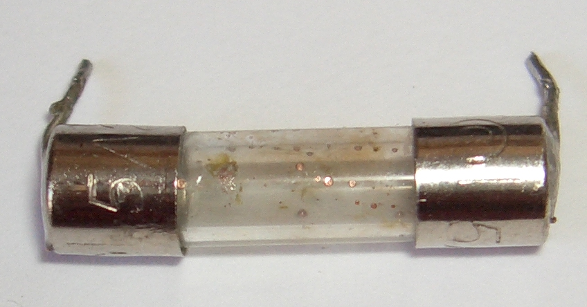 blown 20mm glass cartridge fuse with clearly visbile parts of the molten copperwire; rating: 5A